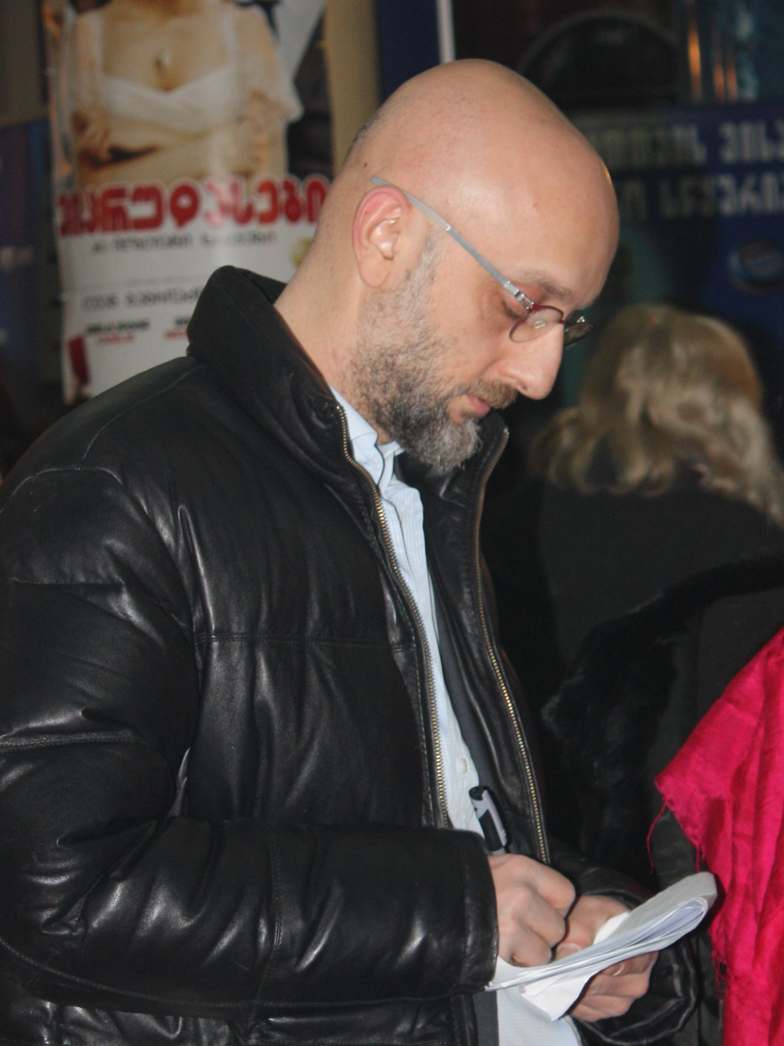 The photo of Levan Gabriadze at the premier of his film Vikrutasi (Выкрутасы)